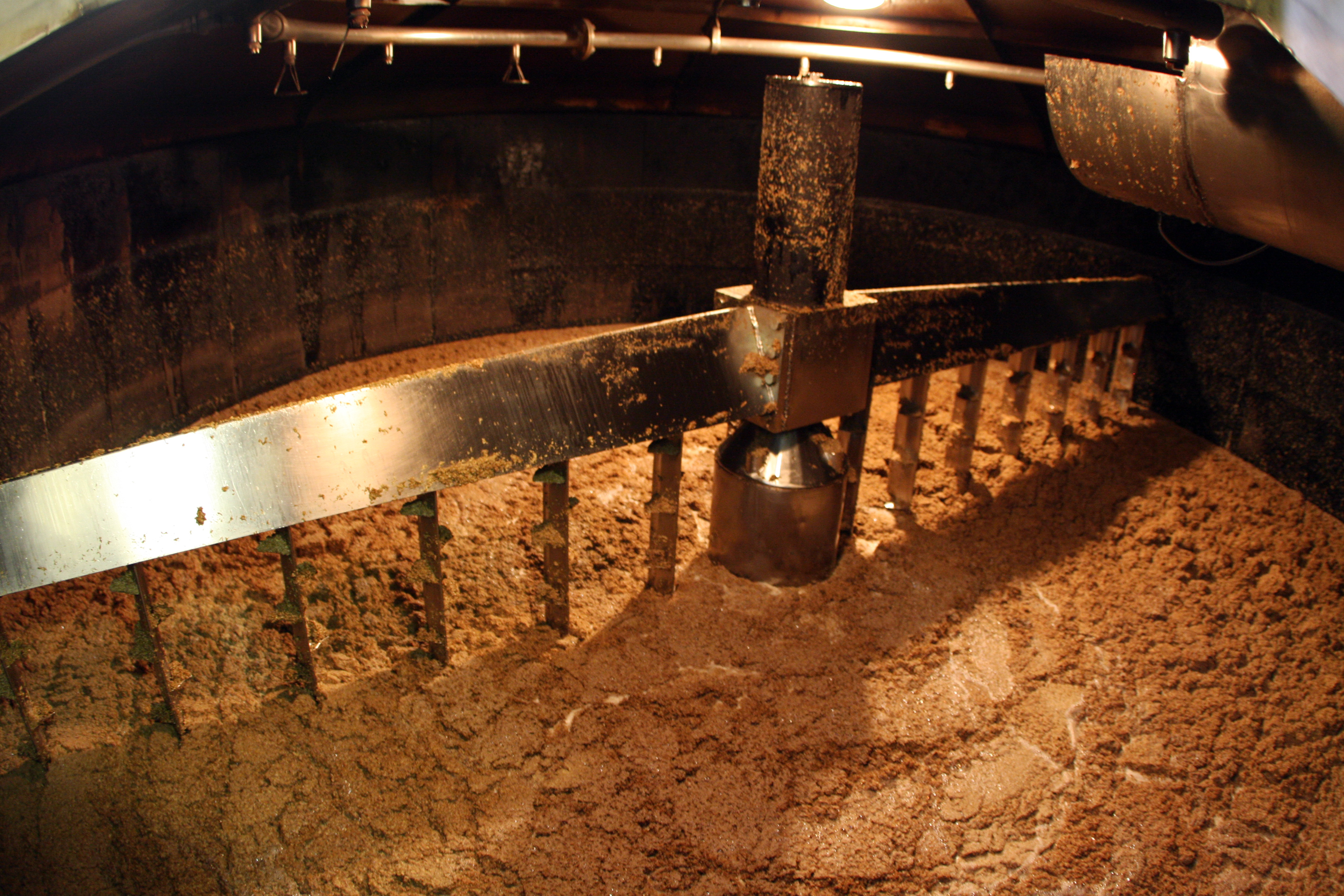 Inside the most northerly distillery on the Scottish mainland. They only use three ingrediants: Malted barley, water, and yeast. No need for any enzymes, chemicals, additives, or anything artificial. Only hot steam is used for sterilizing the tanks and equipment, before making the next batch. The remaining wet grains are hauled away and used for livestock feed.